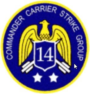 Commander, Carrier Strike Group 14 emblem